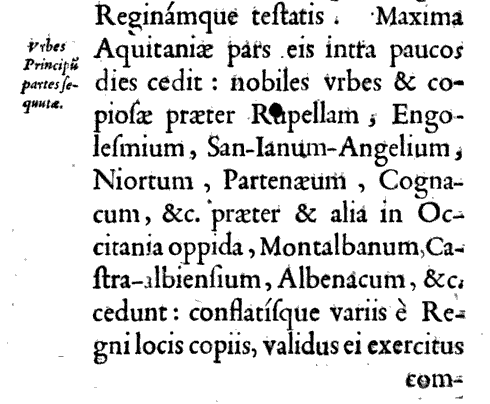 Occitania in a Latin printed text from 1575